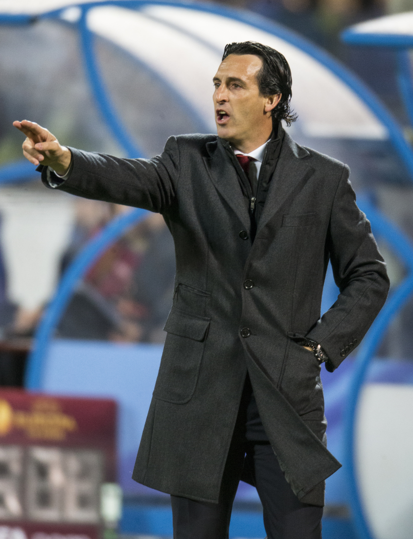 23.04.2015. Россия, Санкт-Петербург, стадион «Петровский». Лига Европы УЕФА 1/4 финала, «Зенит» — «Севилья». На снимке: Унаи Эмери, главный тренер ФК «Севилья».